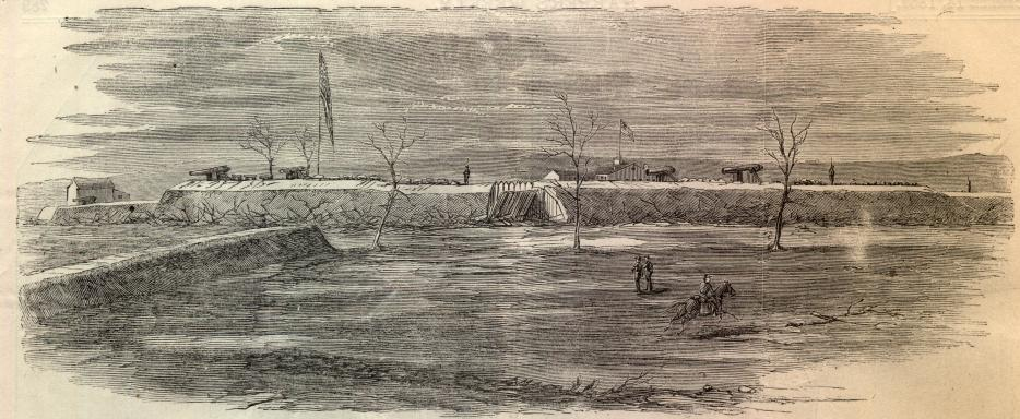 Sketch of Fort Corcoran. Published in Harper's Weekly, December 14, 1861. Image can be seen in its original format here.